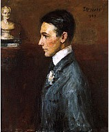 Portrait of Van Wyck Brooks, Oil on canvas